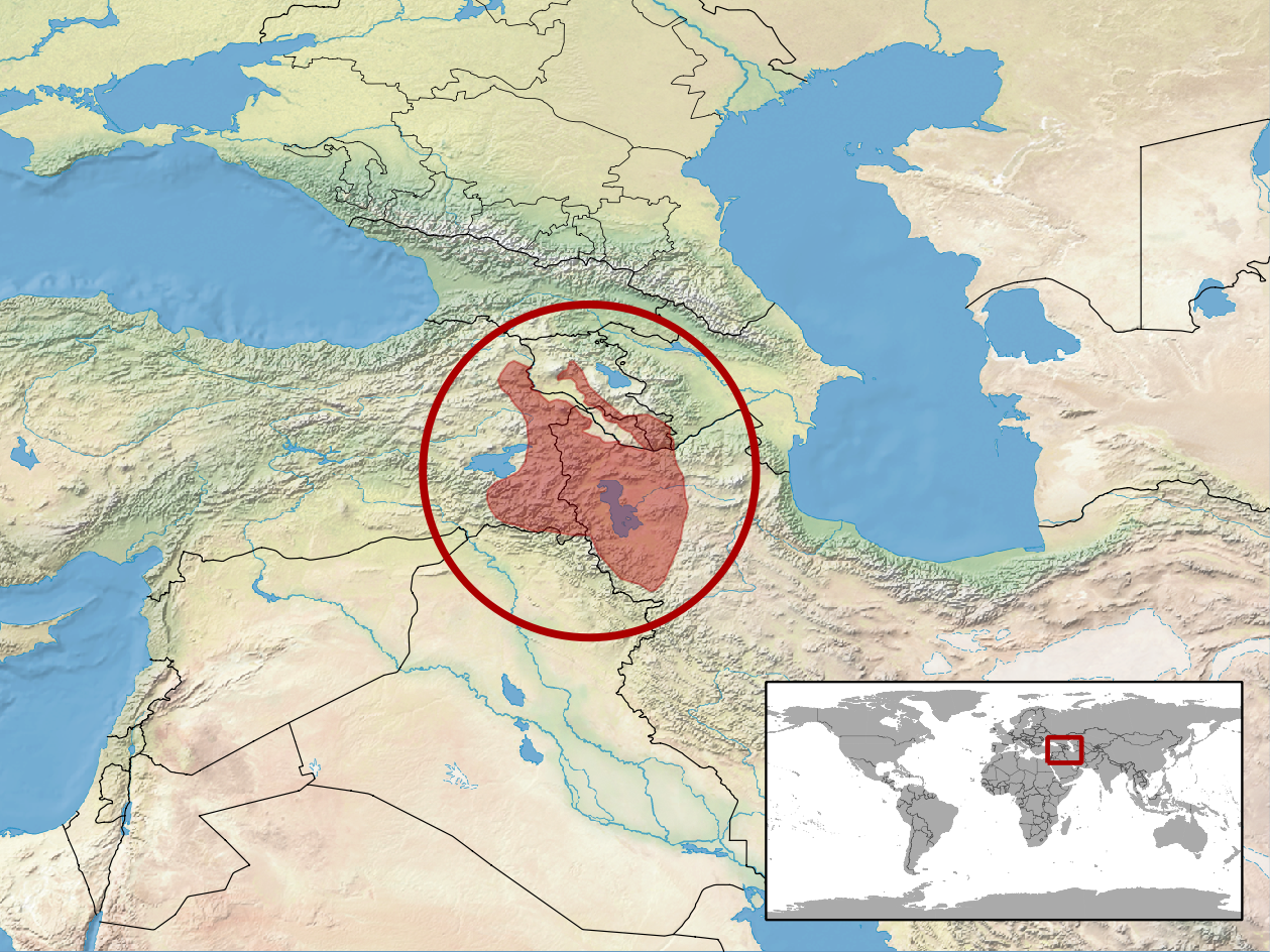 geographic distribution of Montivipera raddei (Native: Armenia (Armenia); Azerbaijan; Iran, Islamic Republic of; Iraq; Turkey) Without the range of Montivipera albicornuta, sometimes recognized as distinct species.